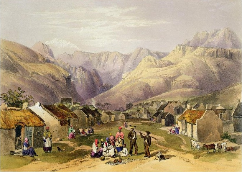 Genadendal Mission Station, South Africa, Plate 9 from "The Kafirs Illustrated", Engraved by J. Needham, 1849